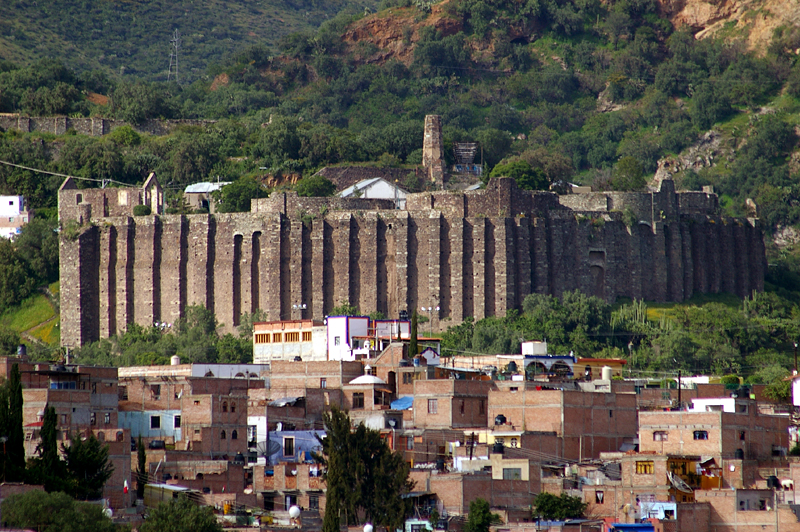 San Juan de Rayas Mine (Rayas Mine; Reyes Mine), in Guanajuato (city), Guanajuato.